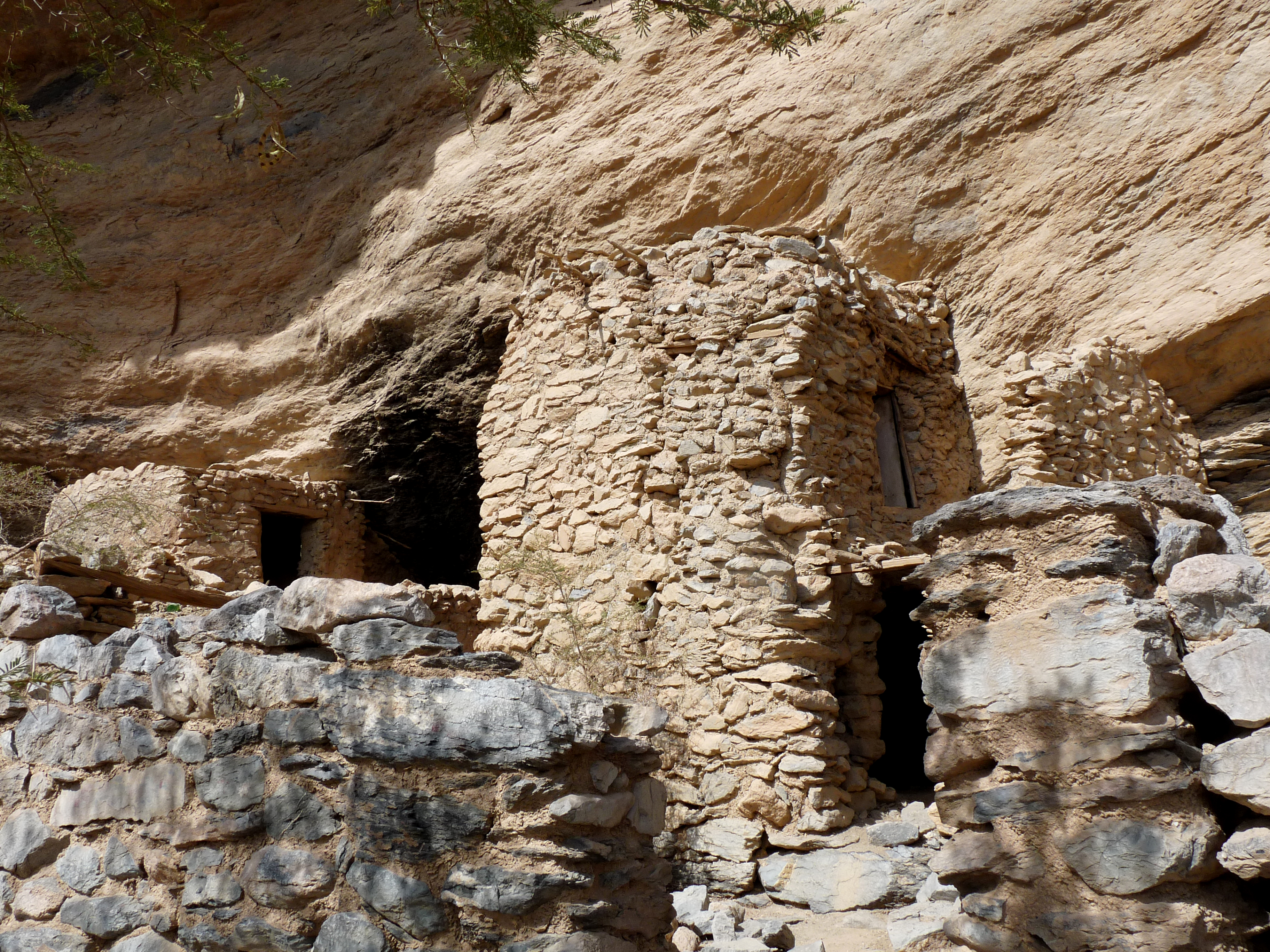 Sap Bani Khamis (abandoned village in Northern Oman, Jebel Shams)